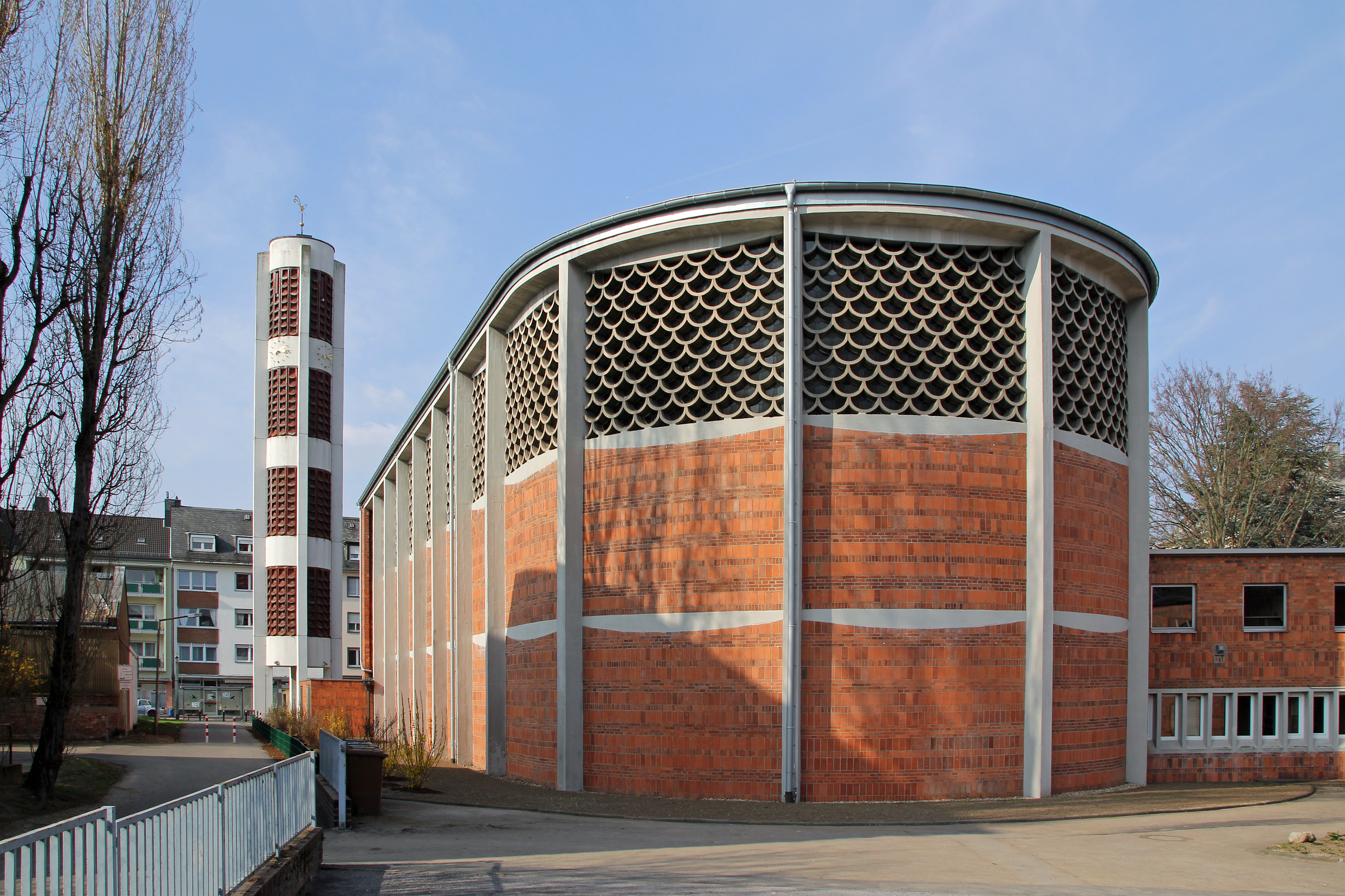 St. Elisabeth church in Koblenz